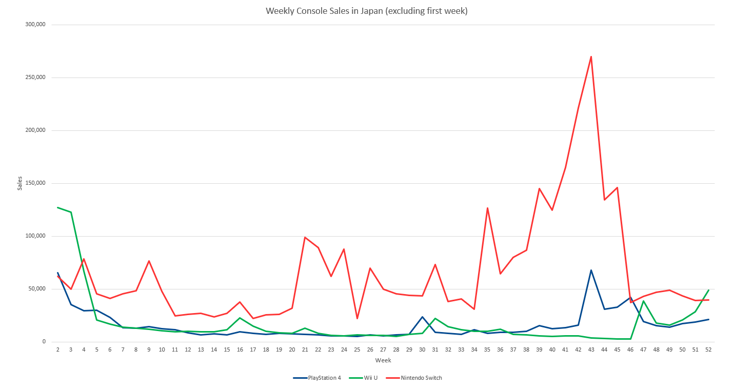 A line graph depicting the first-year sales of the Nintendo Switch (red), Wii U (green), and PlayStation 4 (blue) in Japan, week-by-week excluding first week sales. They have been excluded in order to allow the rest of the 51 weeks depicted in this chart to be discernible. Data sourced from Media Create, via the Gematsu archive of published Media Create sales data. Created by Philip Terry Graham in Microsoft Office Excel 2016.